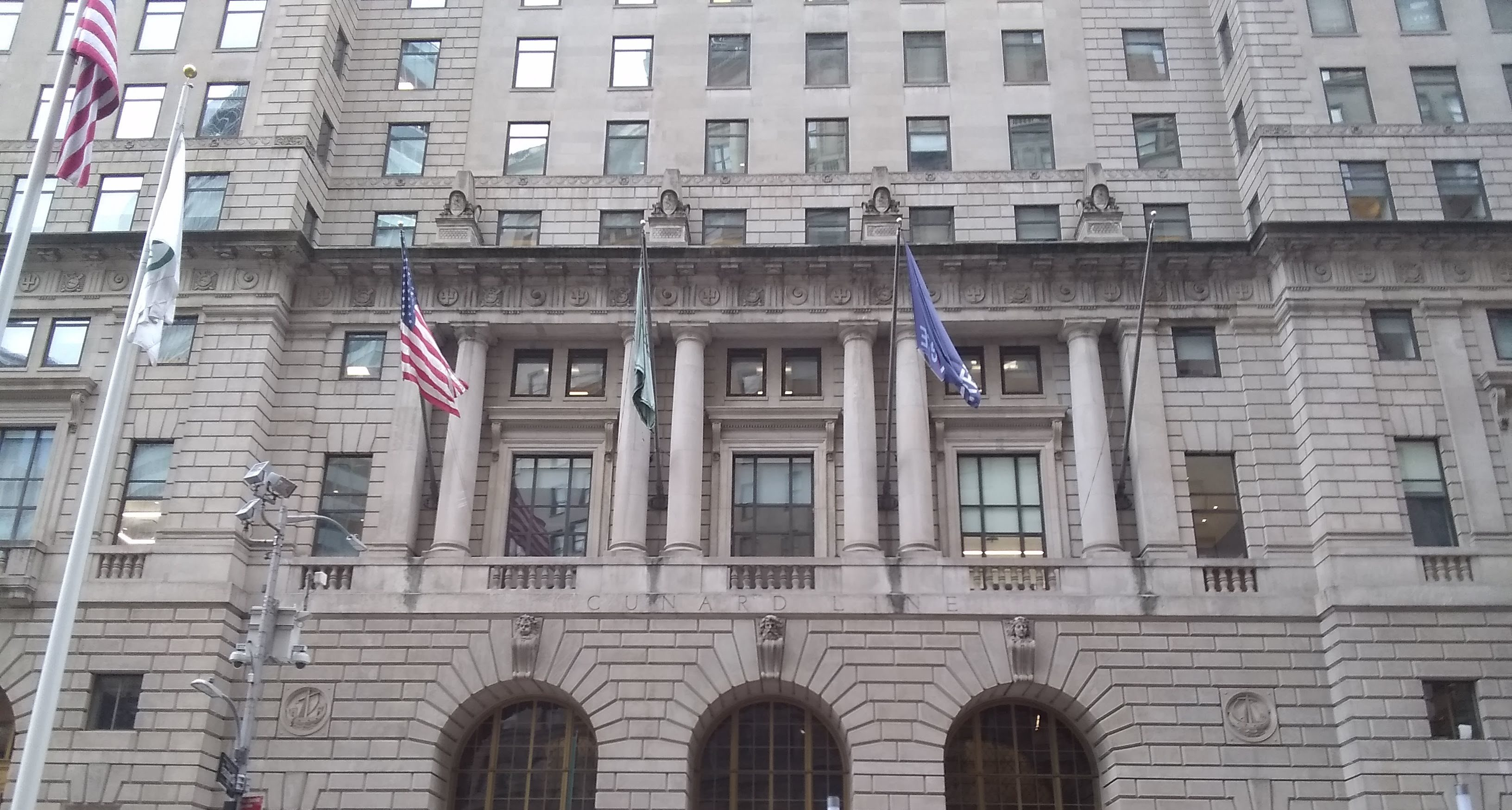 Buildings around Bowling Green, Manhattan, New York